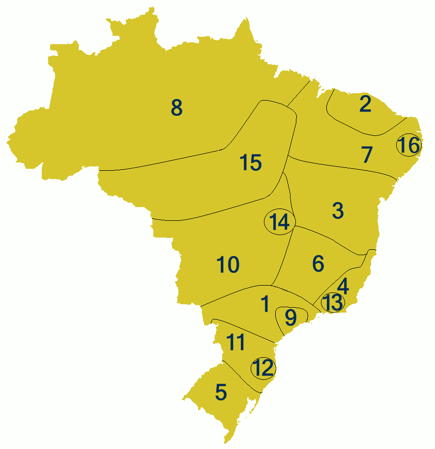 Portuguese language dialects in Brazil